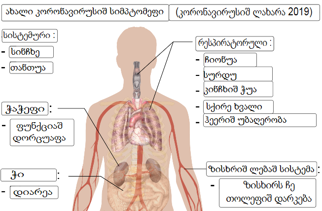 Symptoms of coronavirus disease 2019 (COVID-19), the disease seen in the 2019–20 coronavirus outbreak, and is caused by the Severe acute respiratory syndrome coronavirus 2 (SARS-CoV-2).